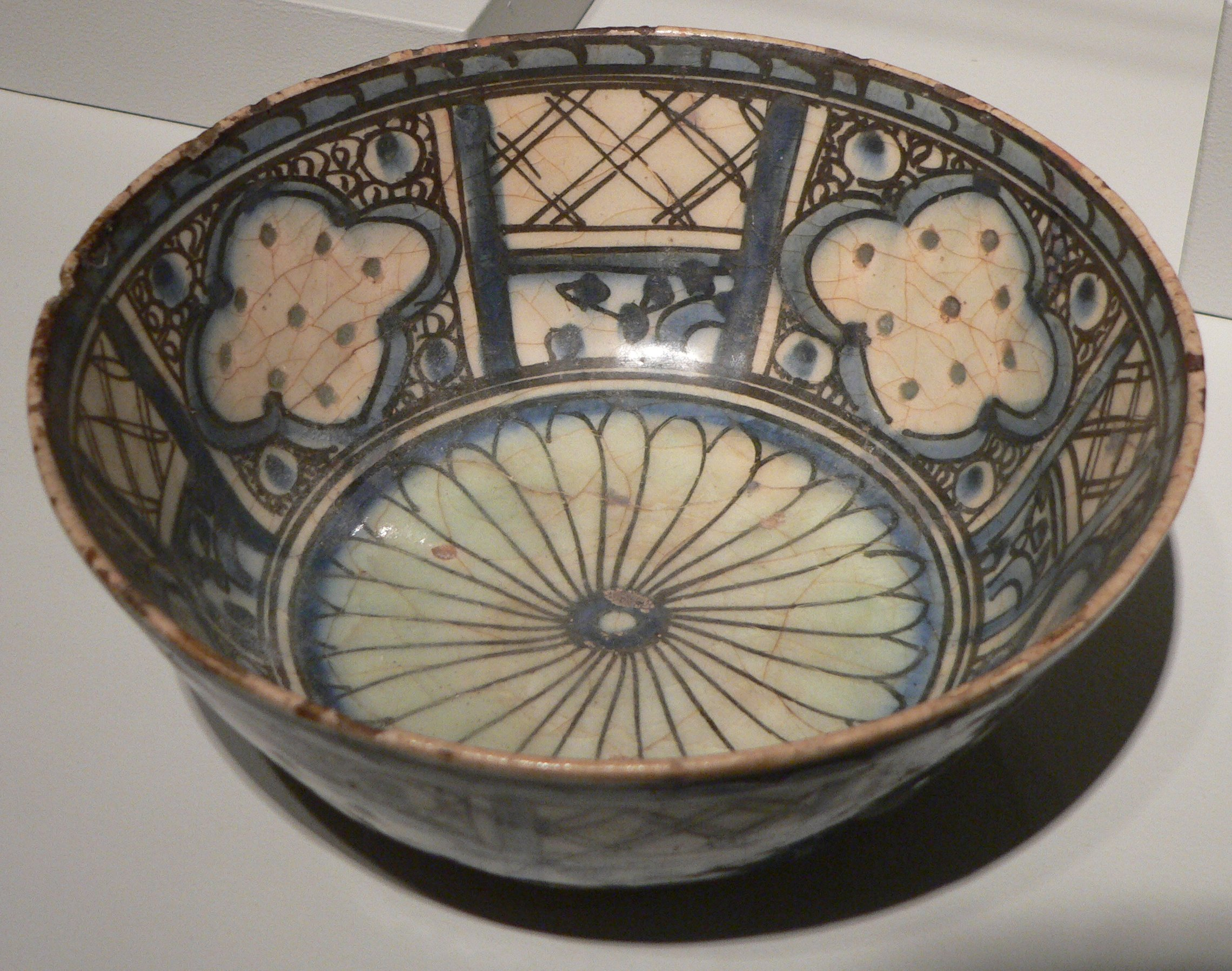 Persia, now Iran Safavid dynasty, 1502-1736 Bowl, 17th century Soft paste with white slip and underglaz blue decoration